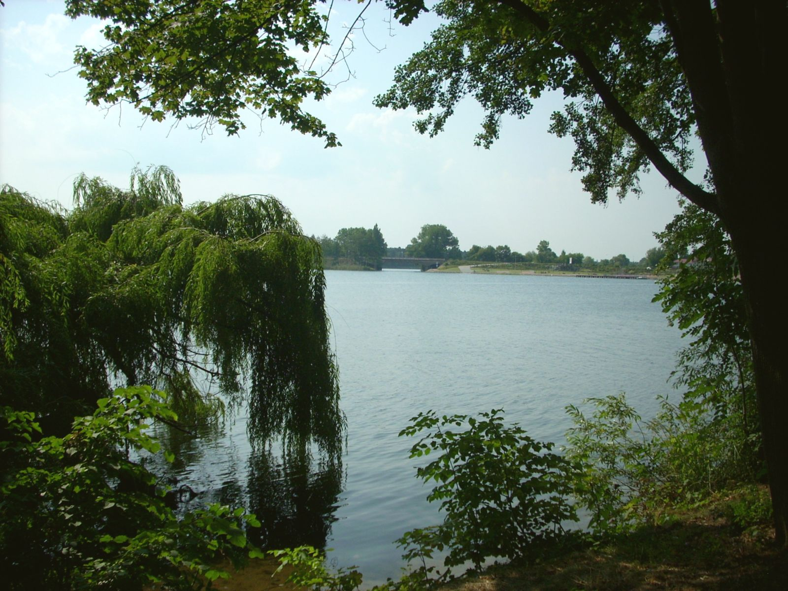 Ślesińskie Lake